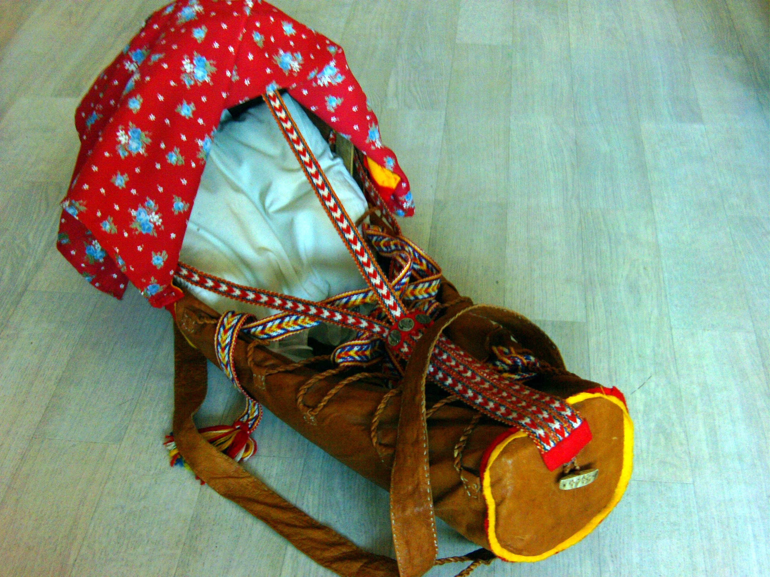 Duodji infant bed